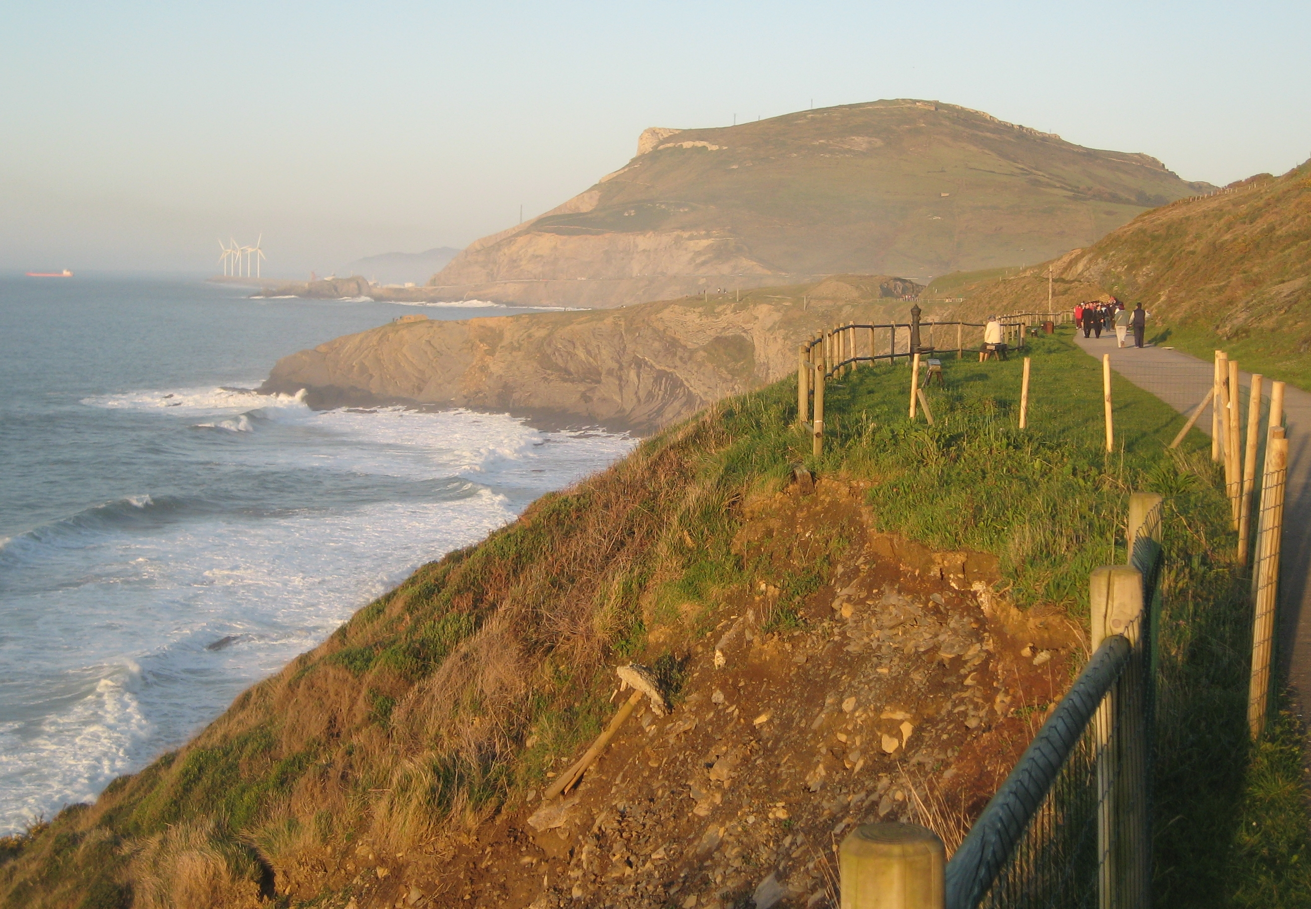 Pedestrian road of Covaron (Muskiz). In the background, Punta Lucero (Zierbena) with the first breakwater of the port of Bilbao and a wind farm on it